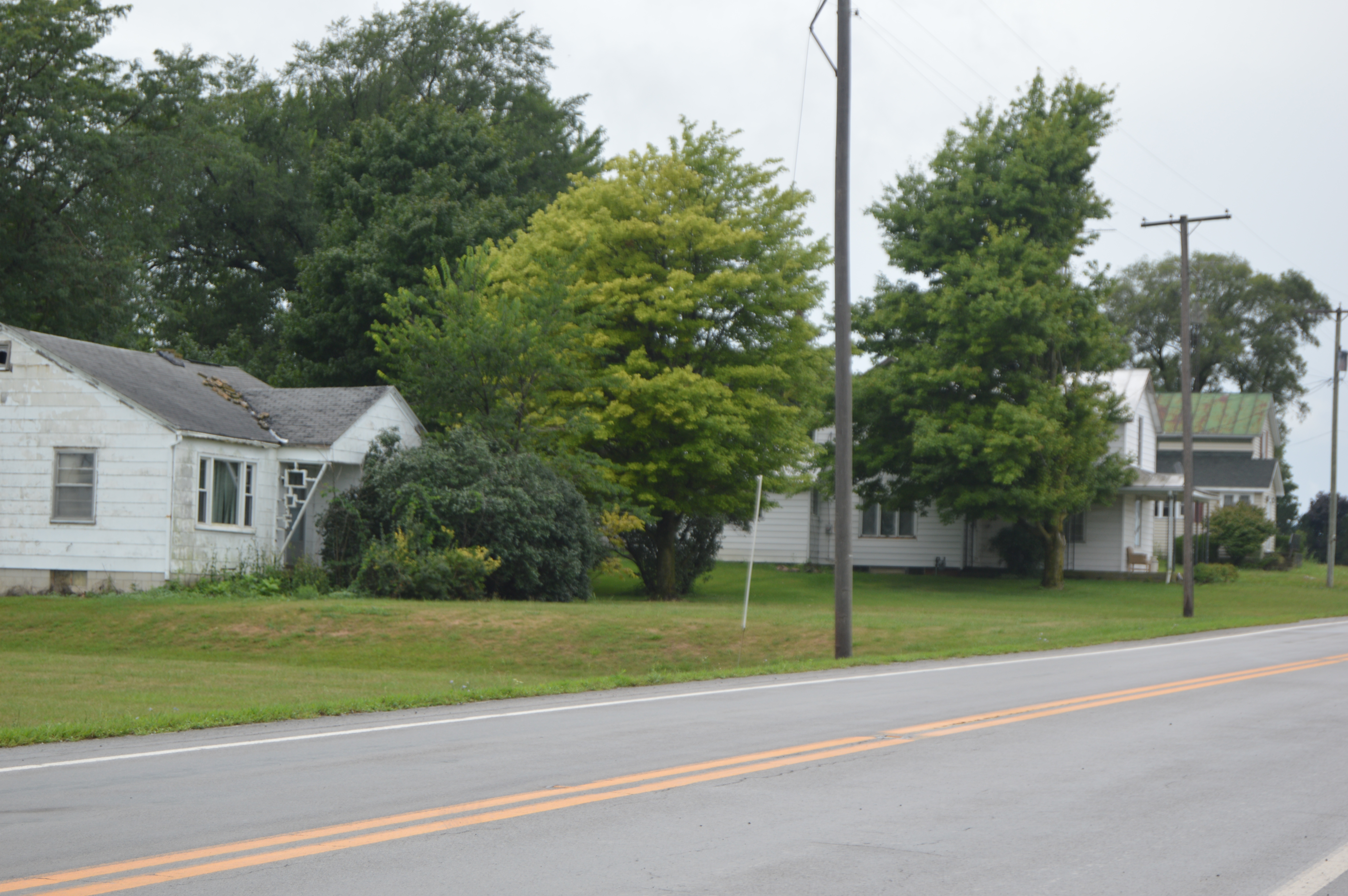 Houses on the southern side of State Route 701 at Blanchard in Blanchard Township, Hardin County, Ohio, United States.